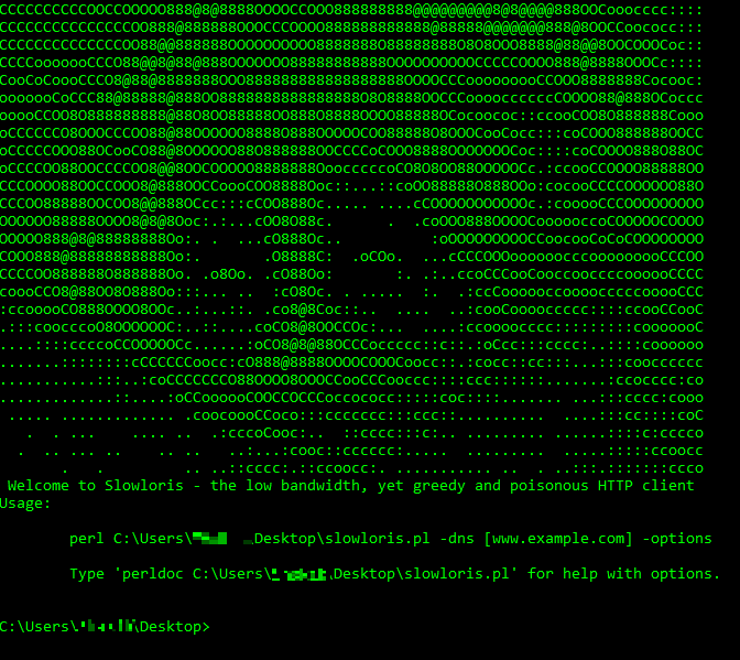 This will be displayed on the slowloris article